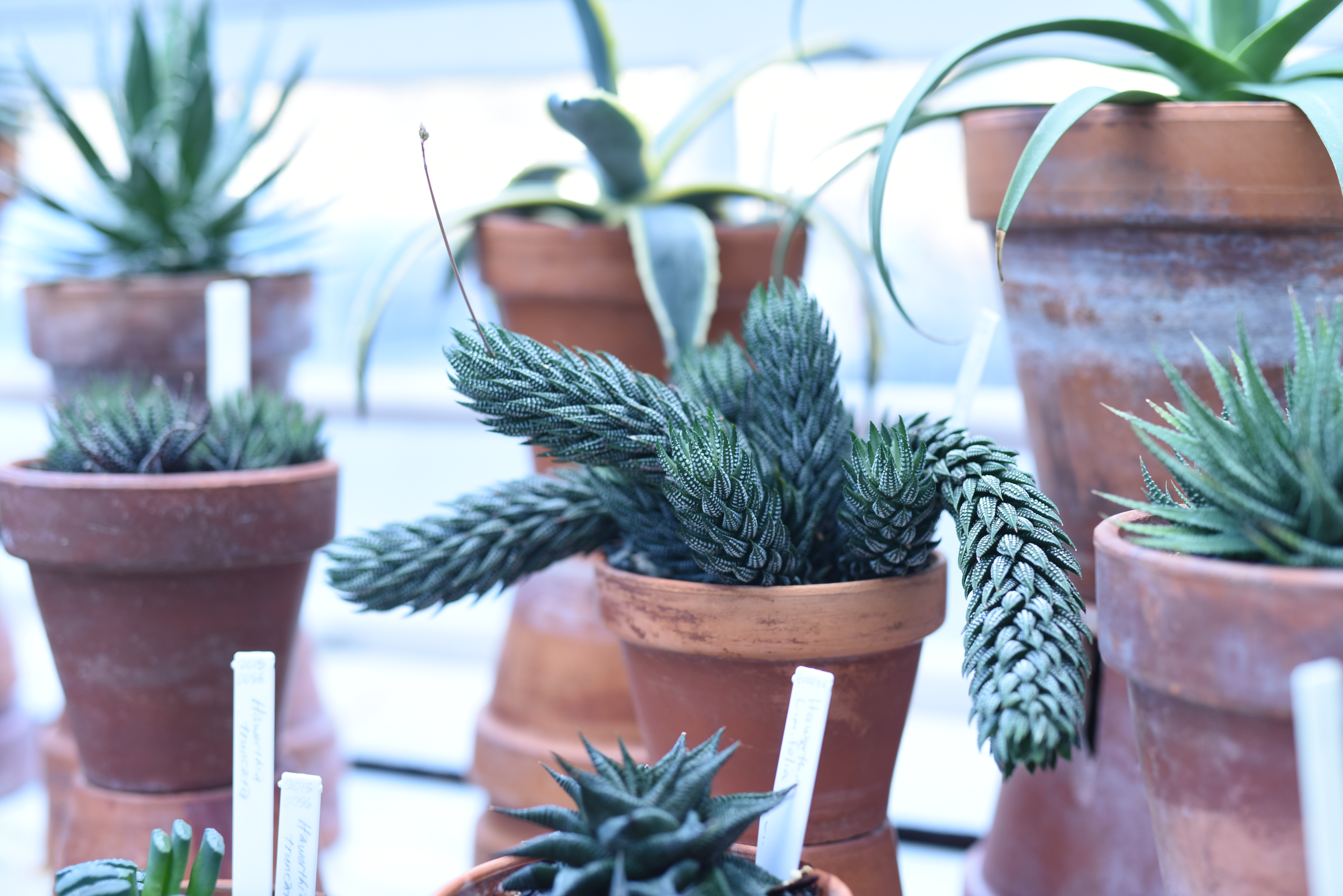 Talcott Greenhouse interoir.